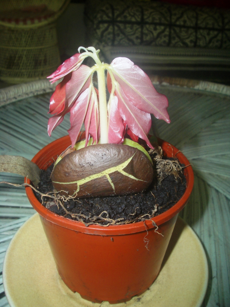 This is a photo of a sprouting bean of the Maniltoa lenticellata tree, several days after sprouting.